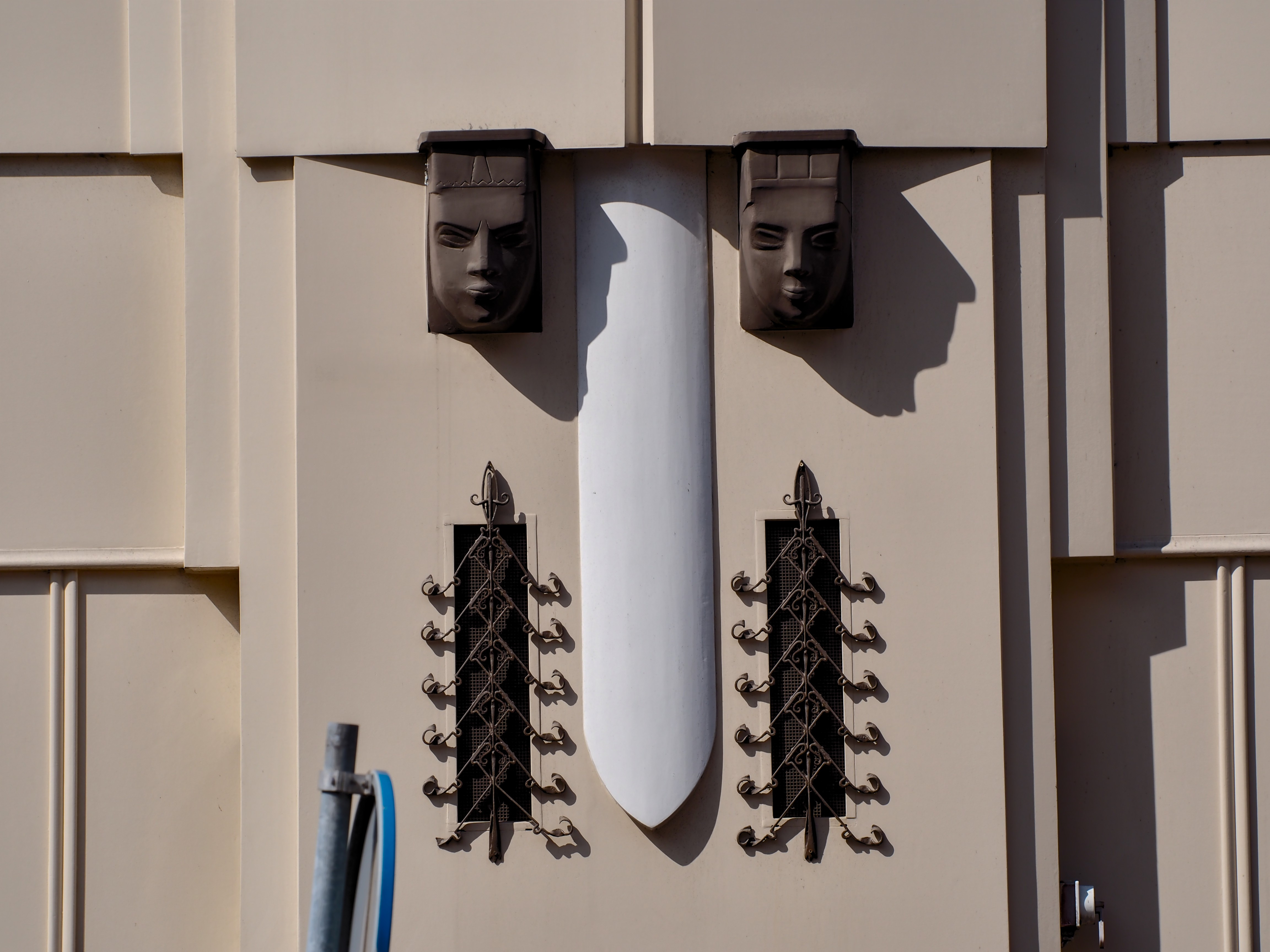 Photographed at Amsterdam, The Netherlands.